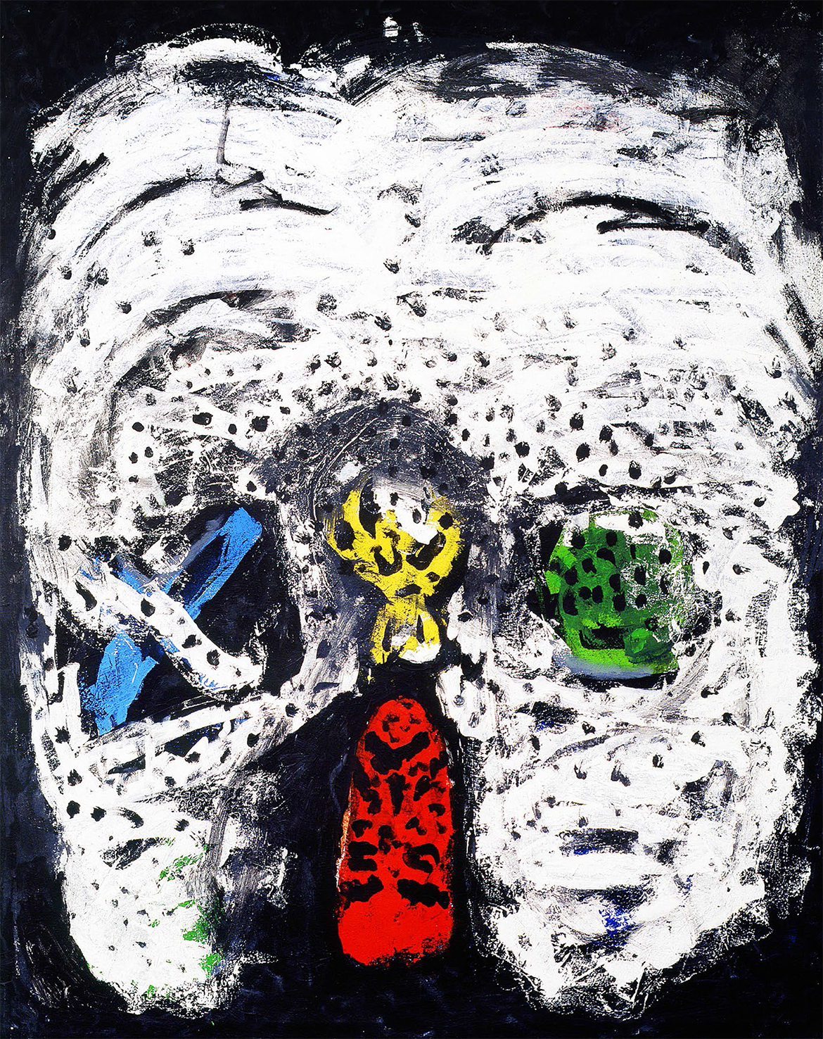 Mixed Media - 200 x 160 cm